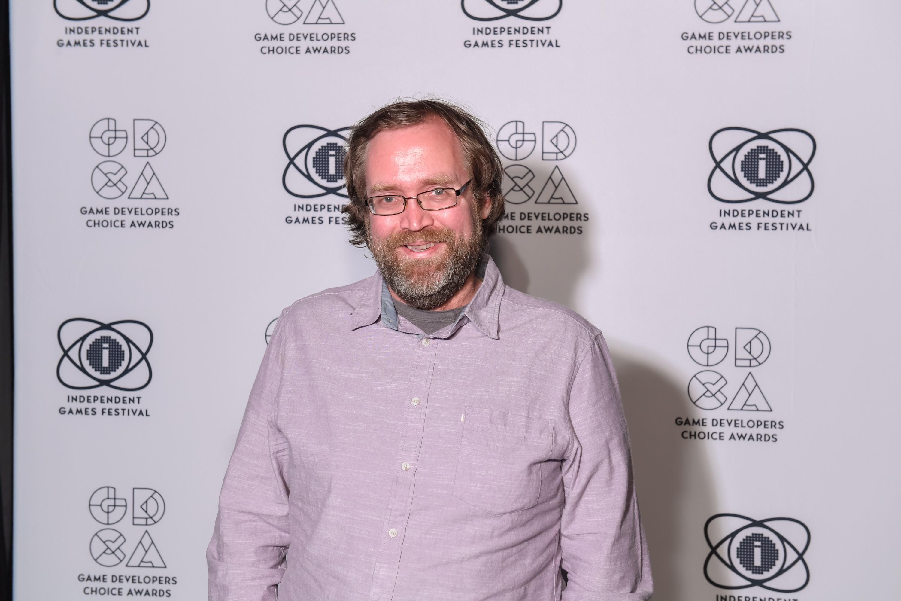 Jason Roberts at the 2018 Game Developers Conference (March 20-22, 2018, SF)